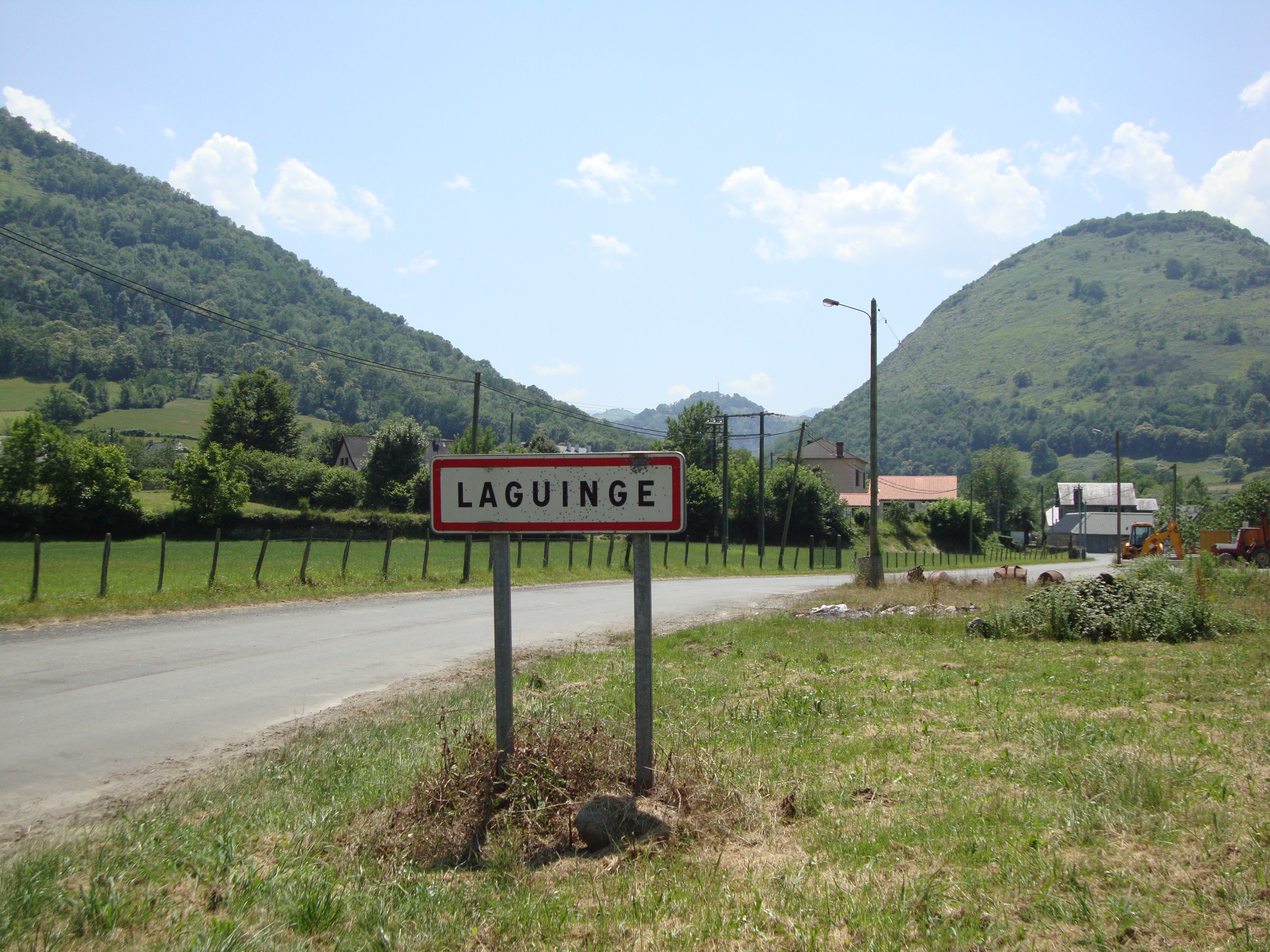 Laguinge (Laguinge-Restoue, Pyr-Atl, Fr) landscape with vierw of the Chapeau de Gendarme.